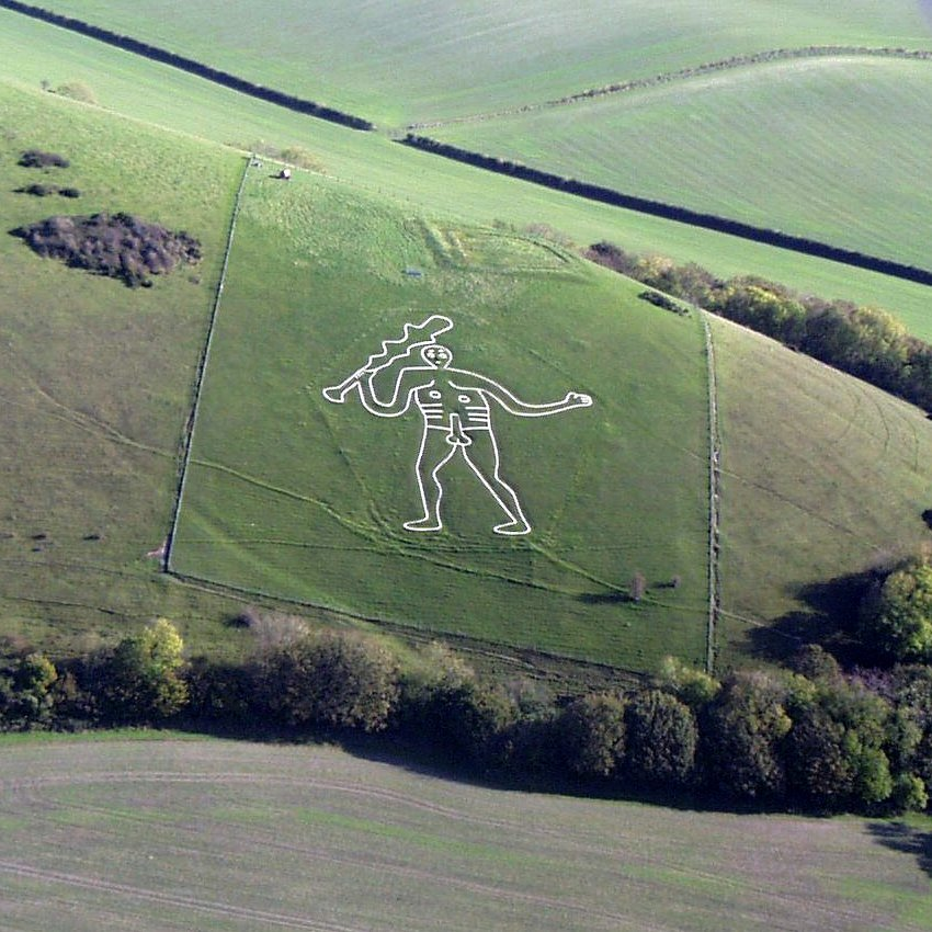 An aerial photograph of the Cerne Abbas Giant taken from a Cessna 150 aircraft using an Olympus C1400L digital camera.